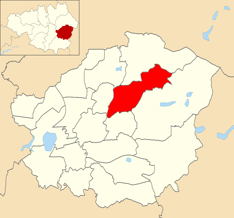 Map showing location of Stalybridge North Ward within Tameside Metropolitan Borough Council.